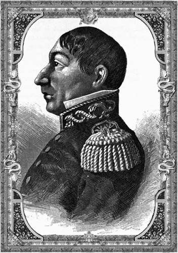 Self-portrait of Pedro Celestino Negrete, Lithograph (1870-1907).